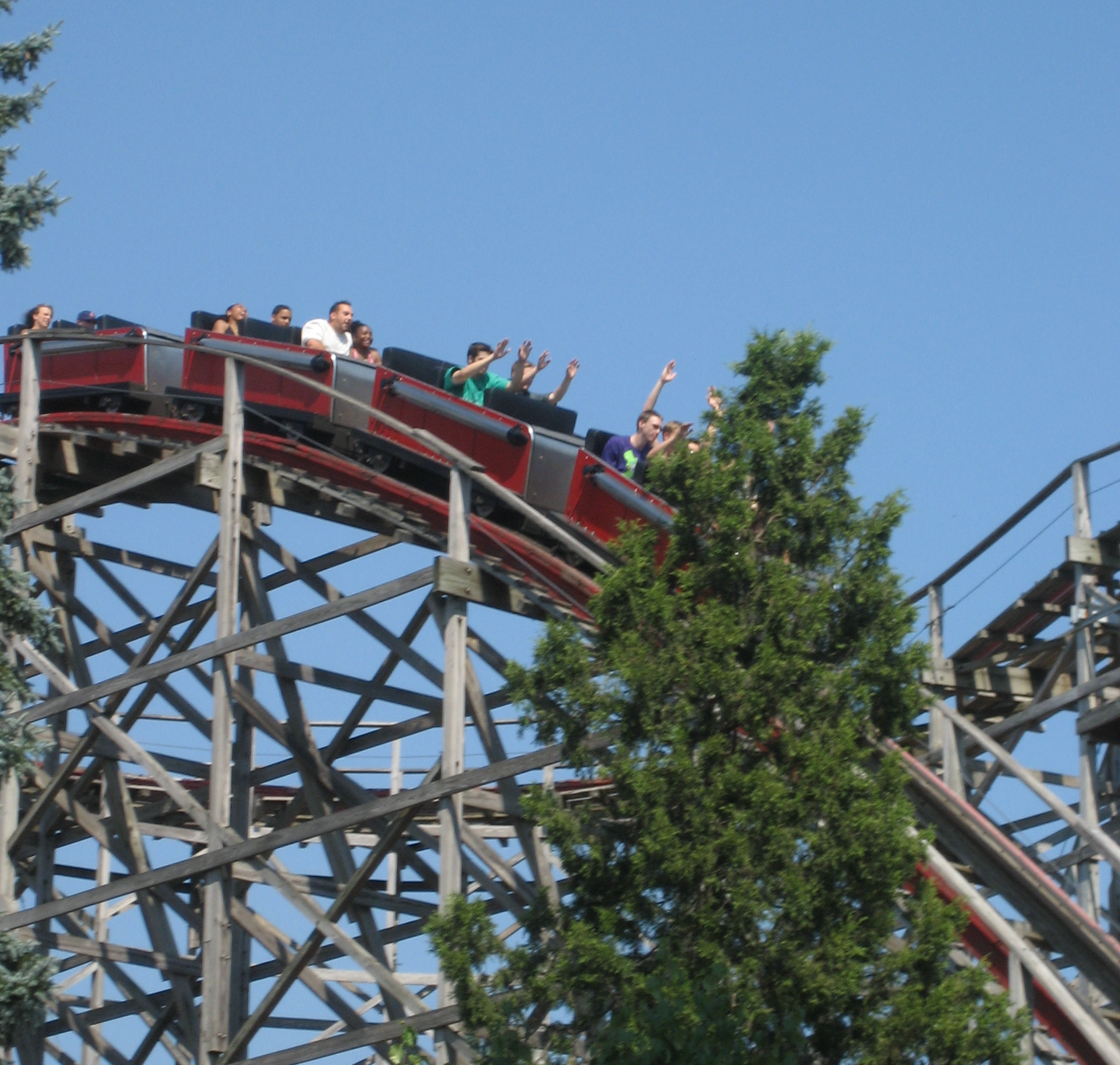 Picture of Big Dipper at Geauga Lake amusement park.